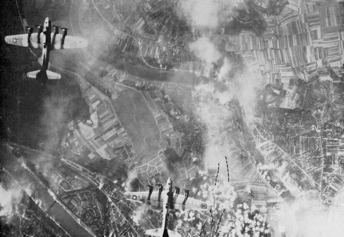 Air raid on Koblenz (Germany) by the US Air Force, September 19th 1944, 447th Bombardment Group (Letter K in a square)